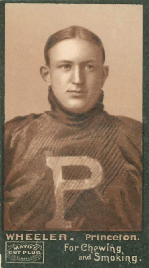 Mayo's Cut Plug football card of Art Wheeler